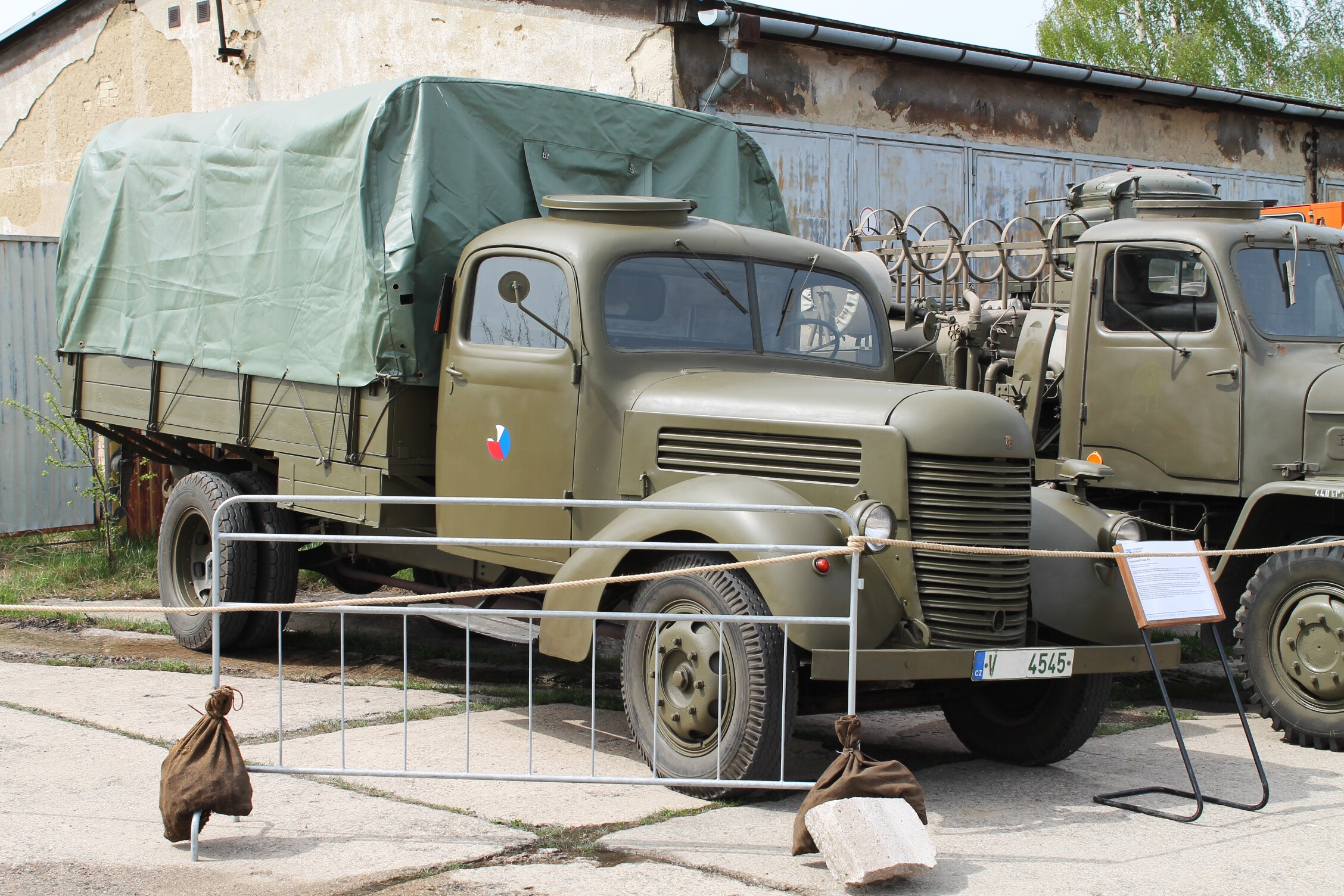 Praga RN military truck, depository of Technical Museum in Brno, Czech Republic